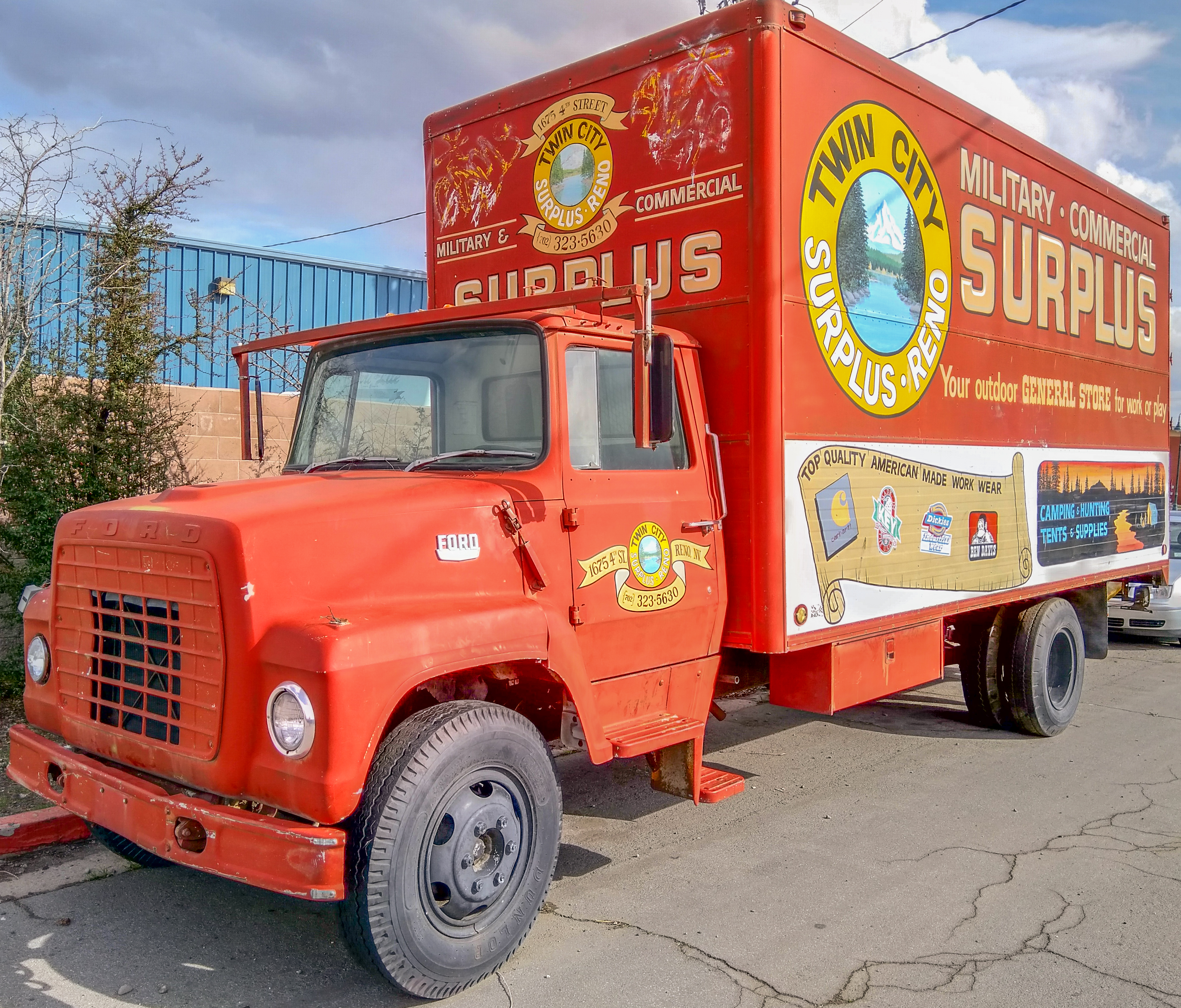 This is a 1973 model Ford L600 straight truck chassis with a 124" wheelbase. A 20' box was fitted by an unknown upfitter. The frame rails were cut and extended by the upfitter to lengthen the wheelbase to accomodate the long box. It served duty hauling goods for Twin City Surplus in Reno, Nevada for many years. The truck is now in Golconda, Nevada. The Ford-rated GVW is 19,200 pounds 361 cubic-inch gasoline V8 engine. NP435 4-speed manual transmission. 2-speed Eaton drive axle.